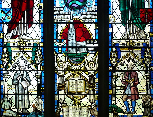 Olney Parish Church, Stained Glass Window (1) The lower part of a larger window showing John Newton and William Cowper. Between them is a depiction of the church and the first line of two hymns; 'How sweet the name of Jesus sounds' and 'God moves in a mysterious way', both of which appear in Olney Hymns .